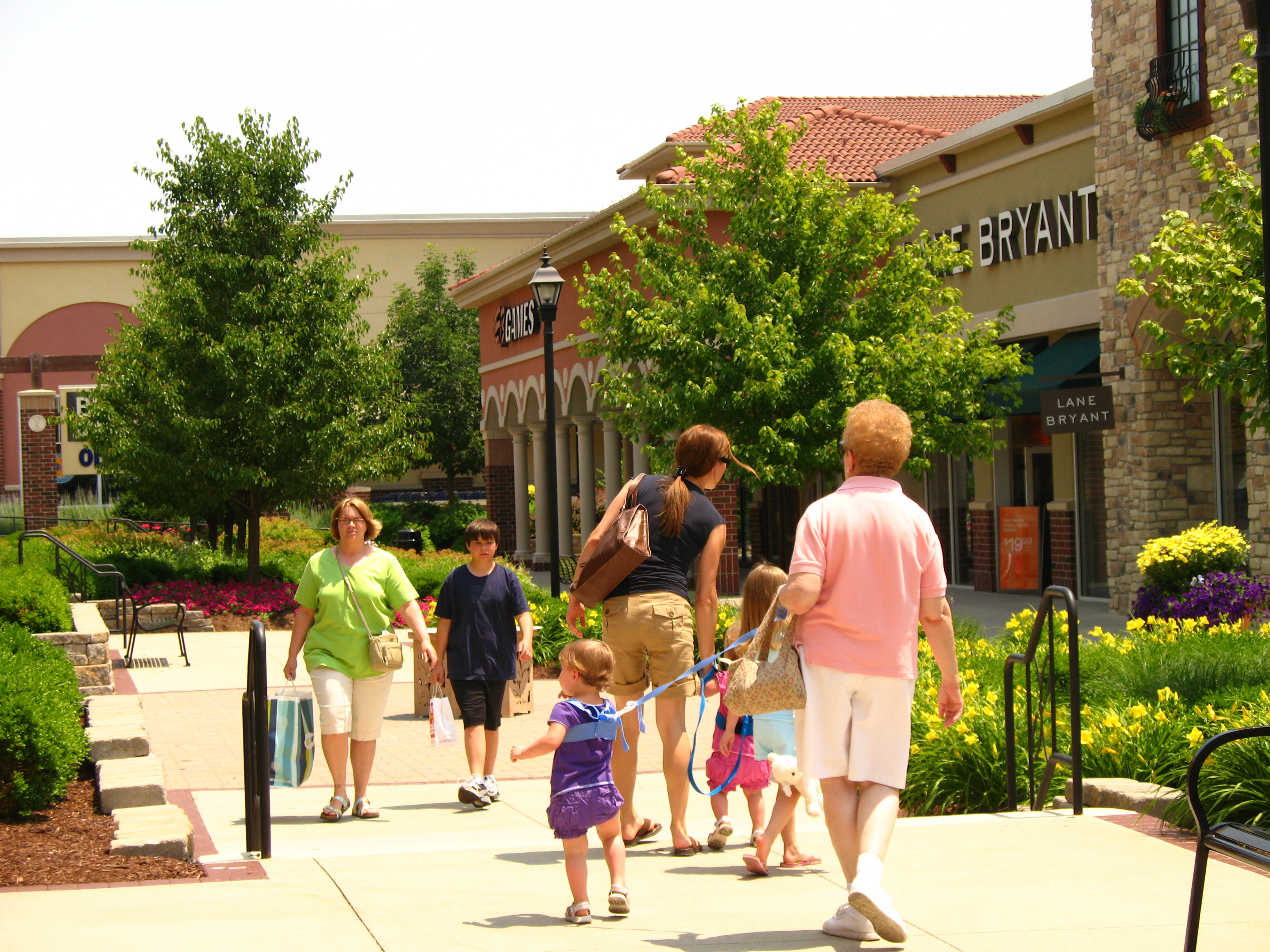 People at Jefferson Pointe mall in Fort Wayne, Indiana, U.S. Leashed child.